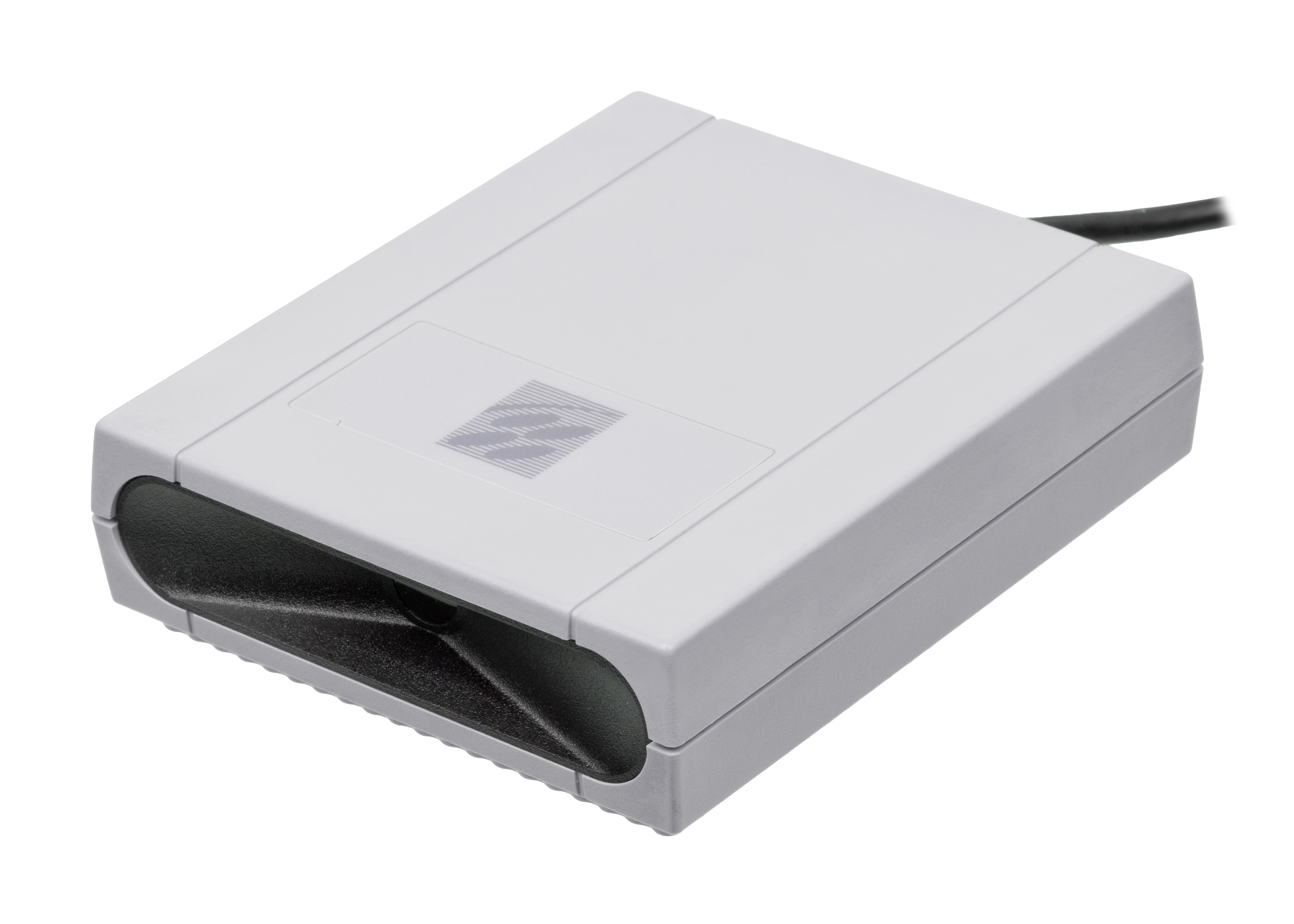 The receiver for the Super Scope light gun for the Super Nintendo video game console, plugs into a controller port and is required in order to use the Super Scope.